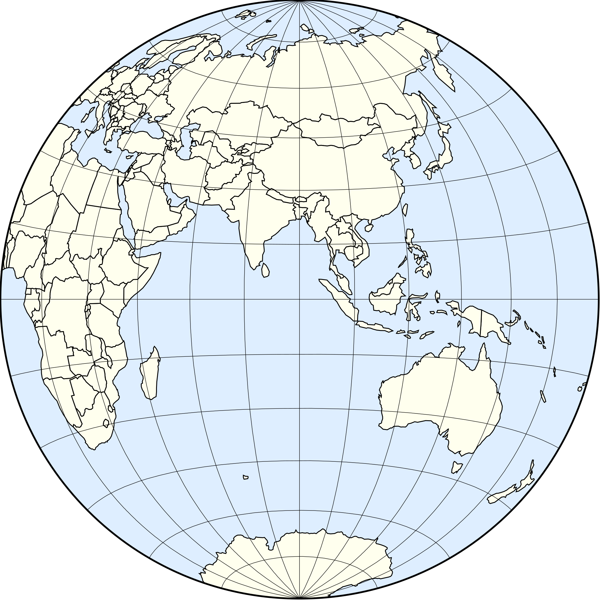 Eastern Hemisphere of Earth (Lambert Azimuthal projection)